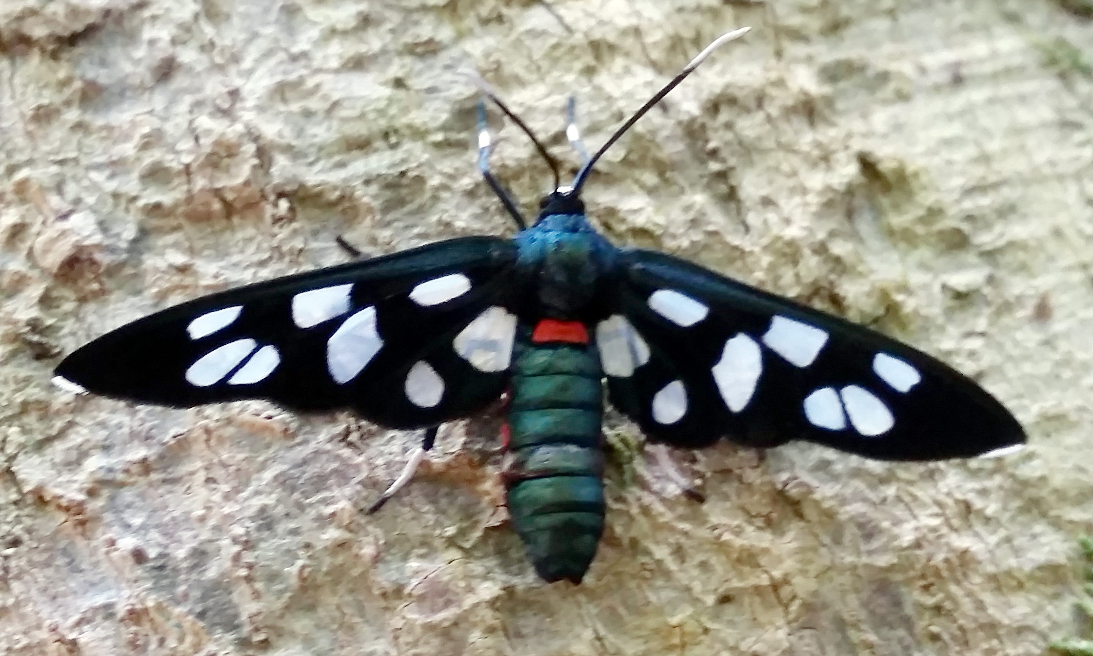 Photo of Cool Handmaiden (Amata Kuhlweini)